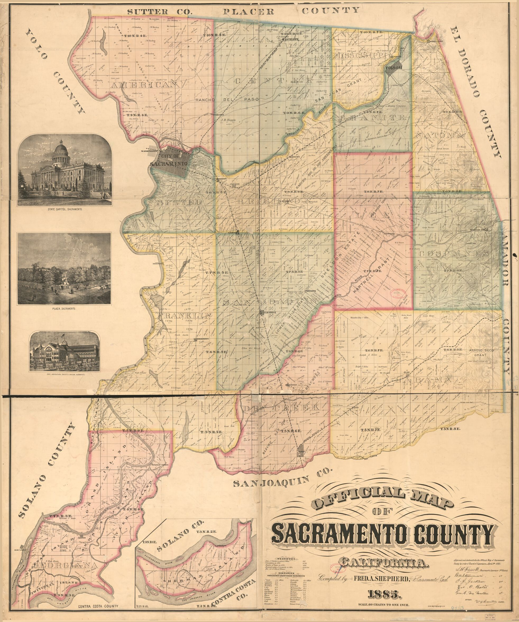 Map of Sacramento County, California, 1885, showing civil townships